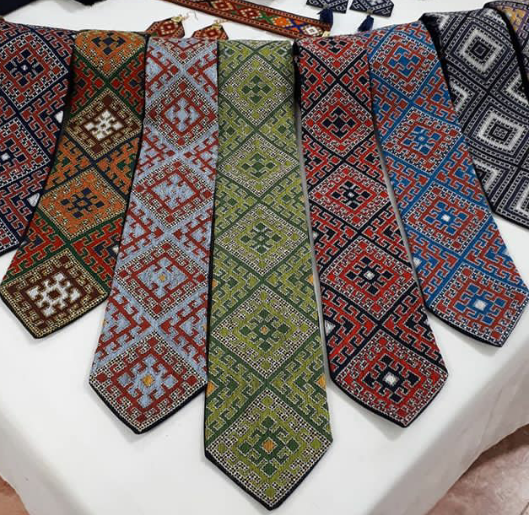 balochi doozi